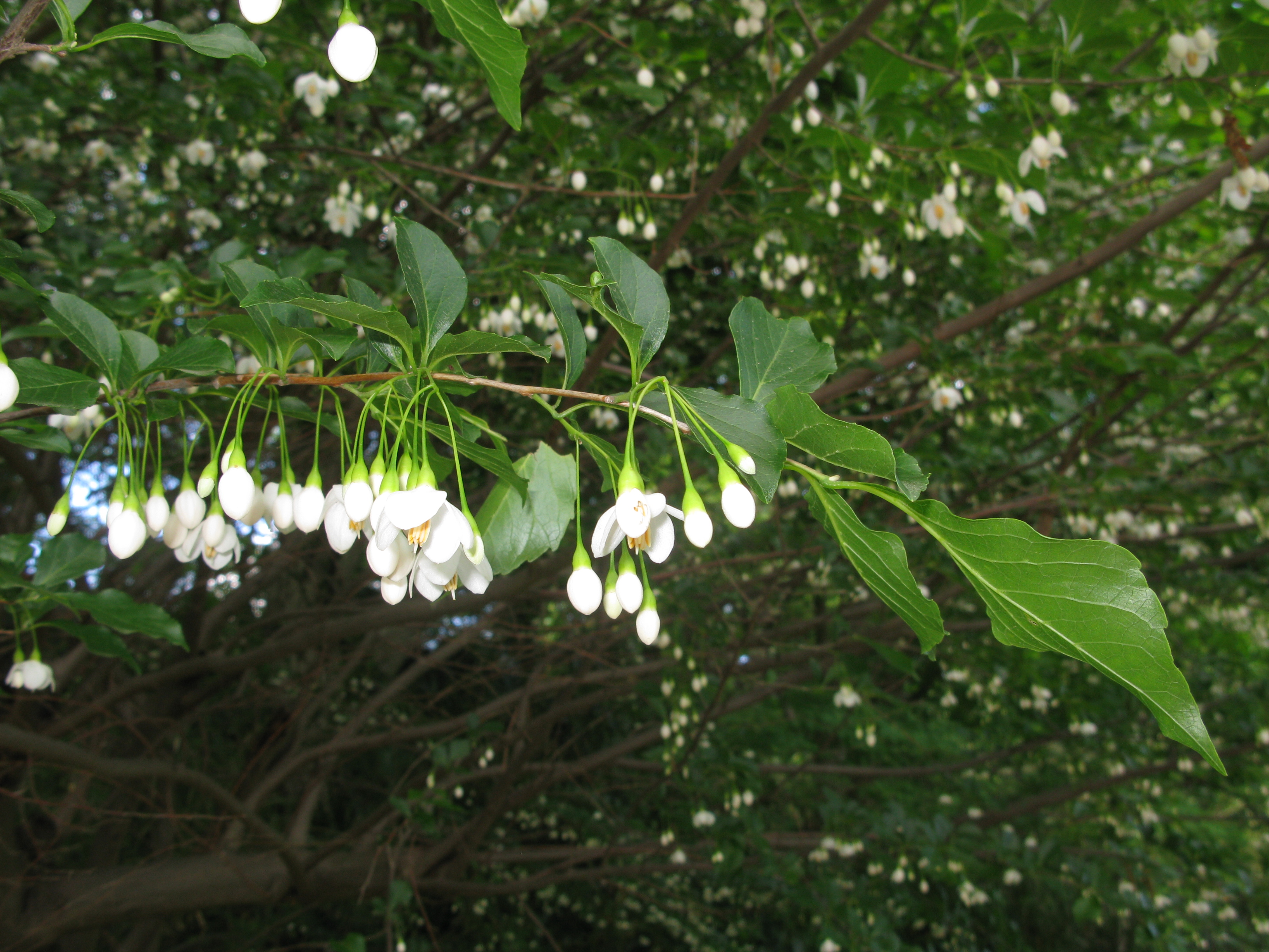 Styrax japonica, Chofu cjty, Tokyo, Japan